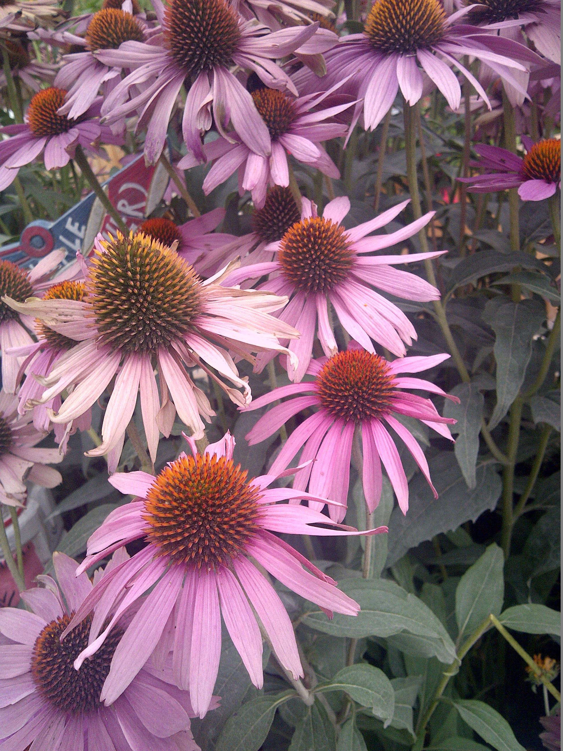 Eastern purple coneflower or purple coneflower (Echinacea purpurea) in London, England.